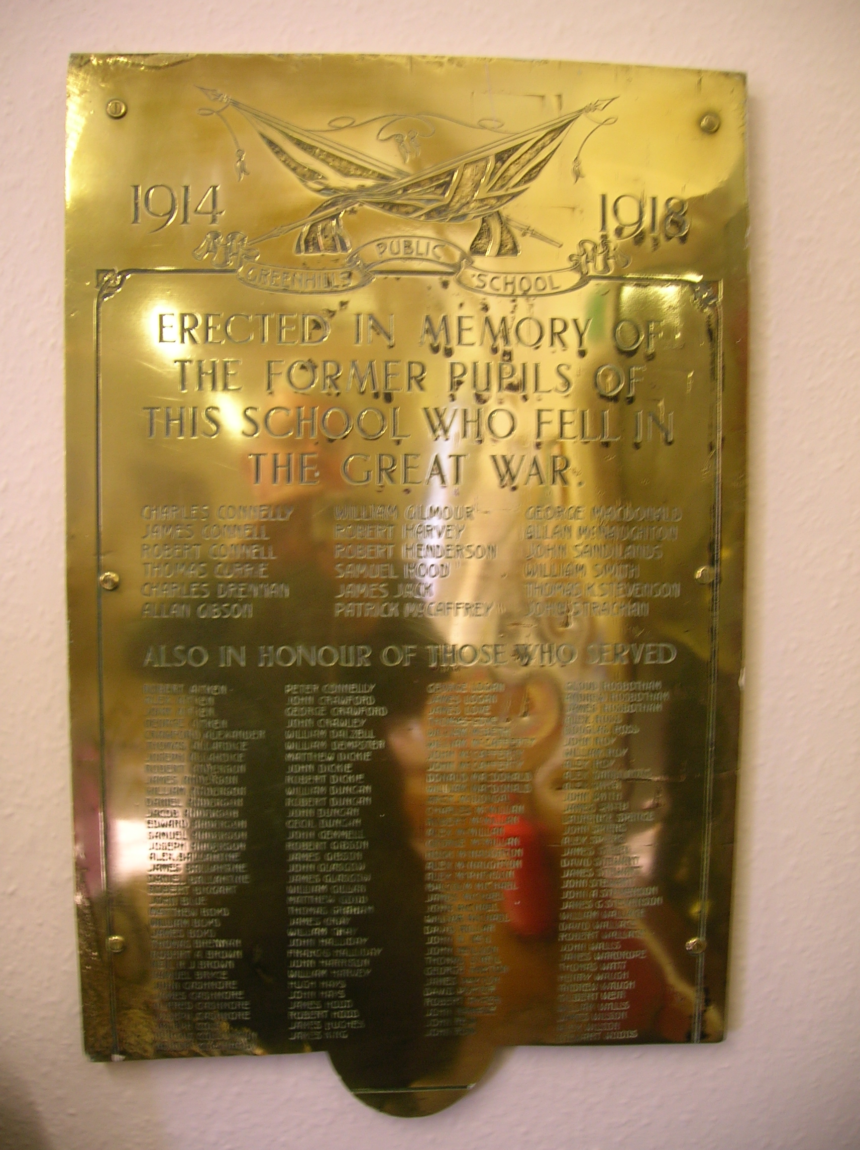 Greenhills Public School 1914-18 War Memorial plaque, Barrmill Community Centre, North Ayrshire, Scotland